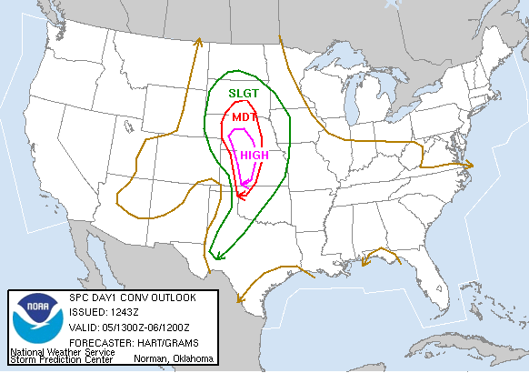 May 5, 2007 1300 UTC day one convective outlook, in the midst of the May 2007 tornado outbreak